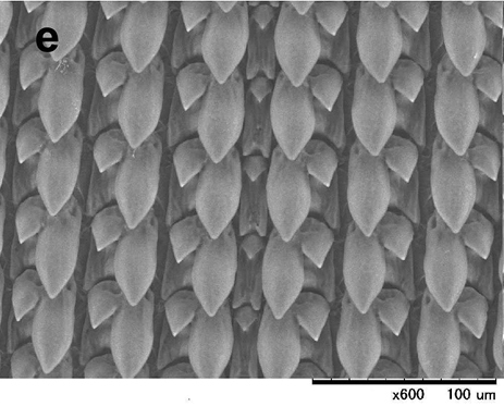 SEM photo of the central tooth and the first 3 pairs of lateral teeth of the radula of Halongella schlumbergeri (Morlet, 1886). Locality: 20071122D Hải Phòng Province, Hải Phòng City, Cát Bà Island, Cát Bà Nat. Park, between Cát Bà N.P., ranger st. and Quan Y, GPS not recorded, leg. Ohara, K, Okubo, K. & Otani, J. U., 22.11.2007., coll PGB (in ethanol, anatomically examined).